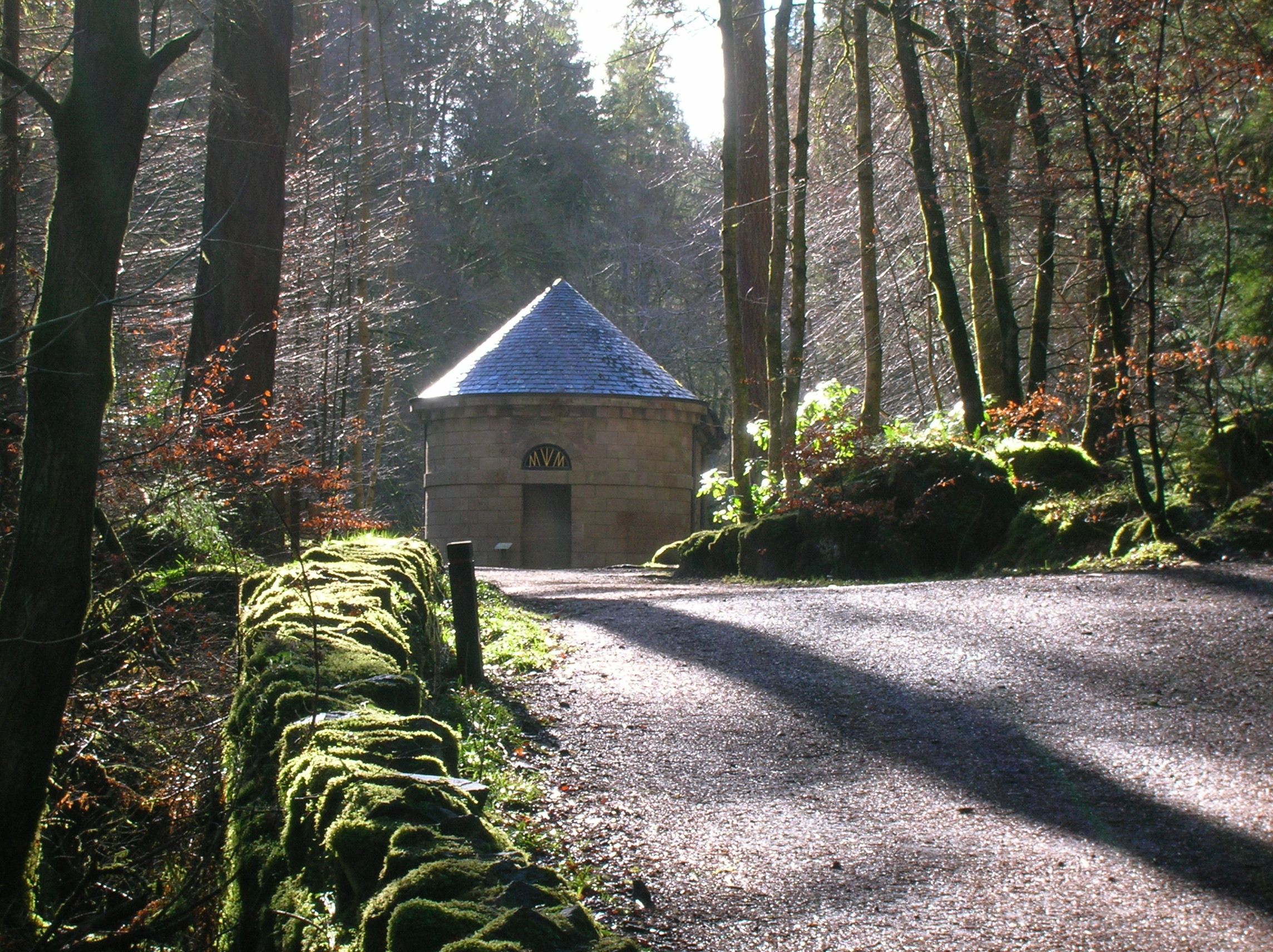 The approach to Ossian's Hall, The Hermitage, Scotland